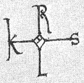 Charlemagne's monogram, in a diploma of 781